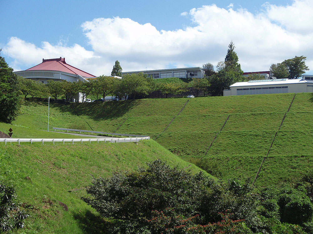 Japan Institute of KEIRIN in Izu, Shizuoka Prefecture, Japan.